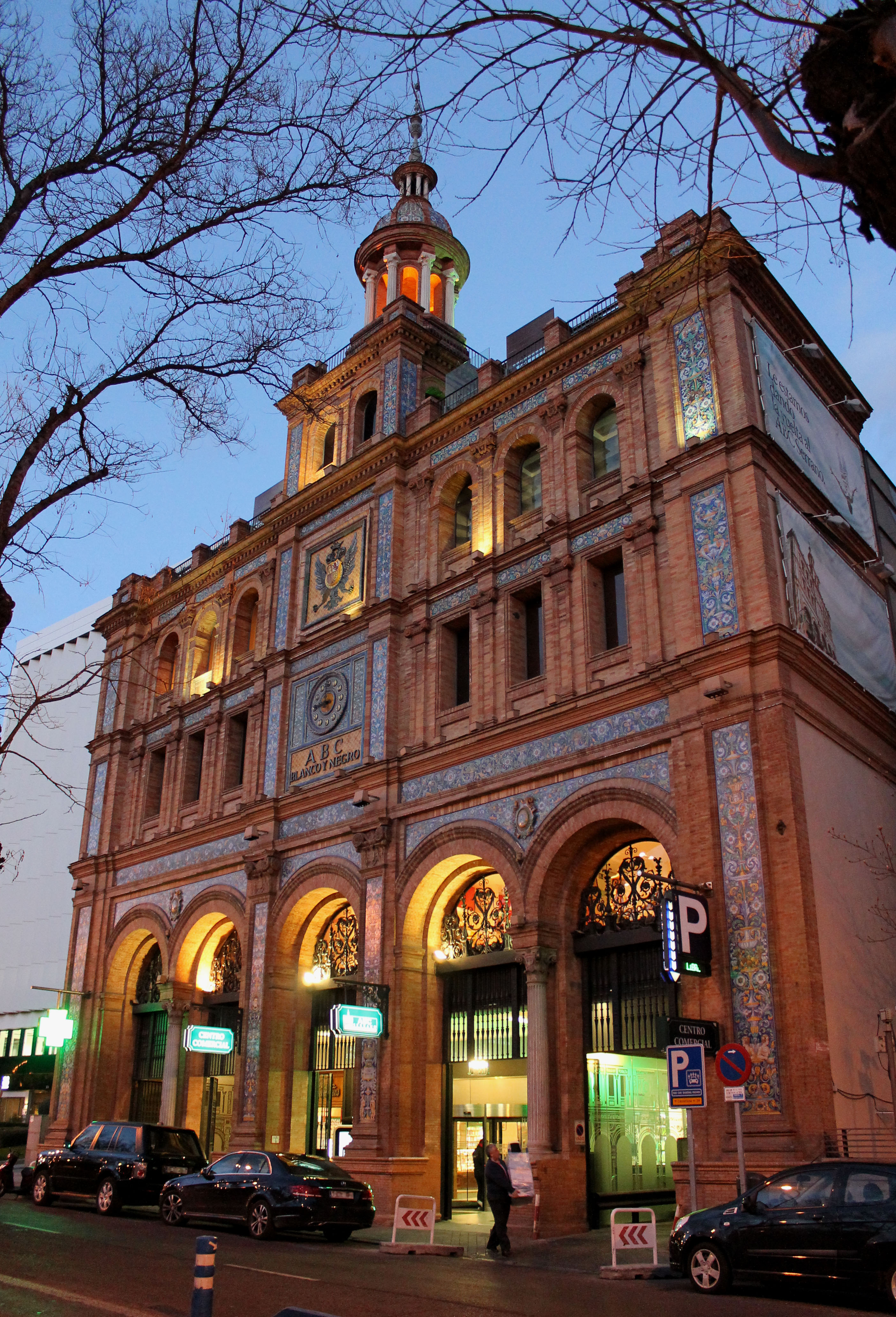 West façade of ABC Serrano building in Madrid (Spain).